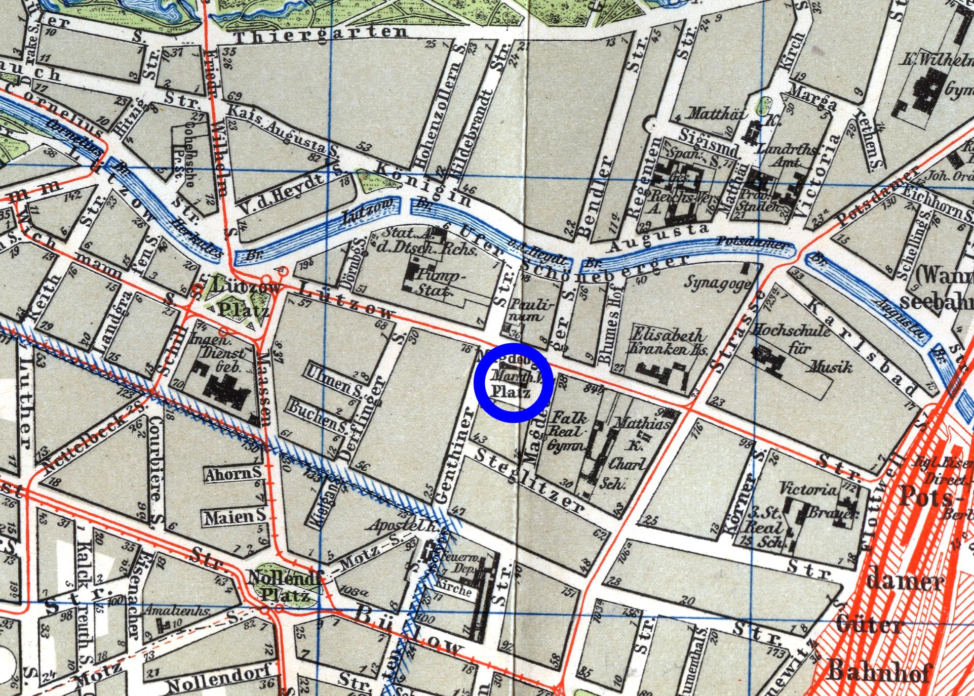 Berlin - Markthalle V, situation plan 1896